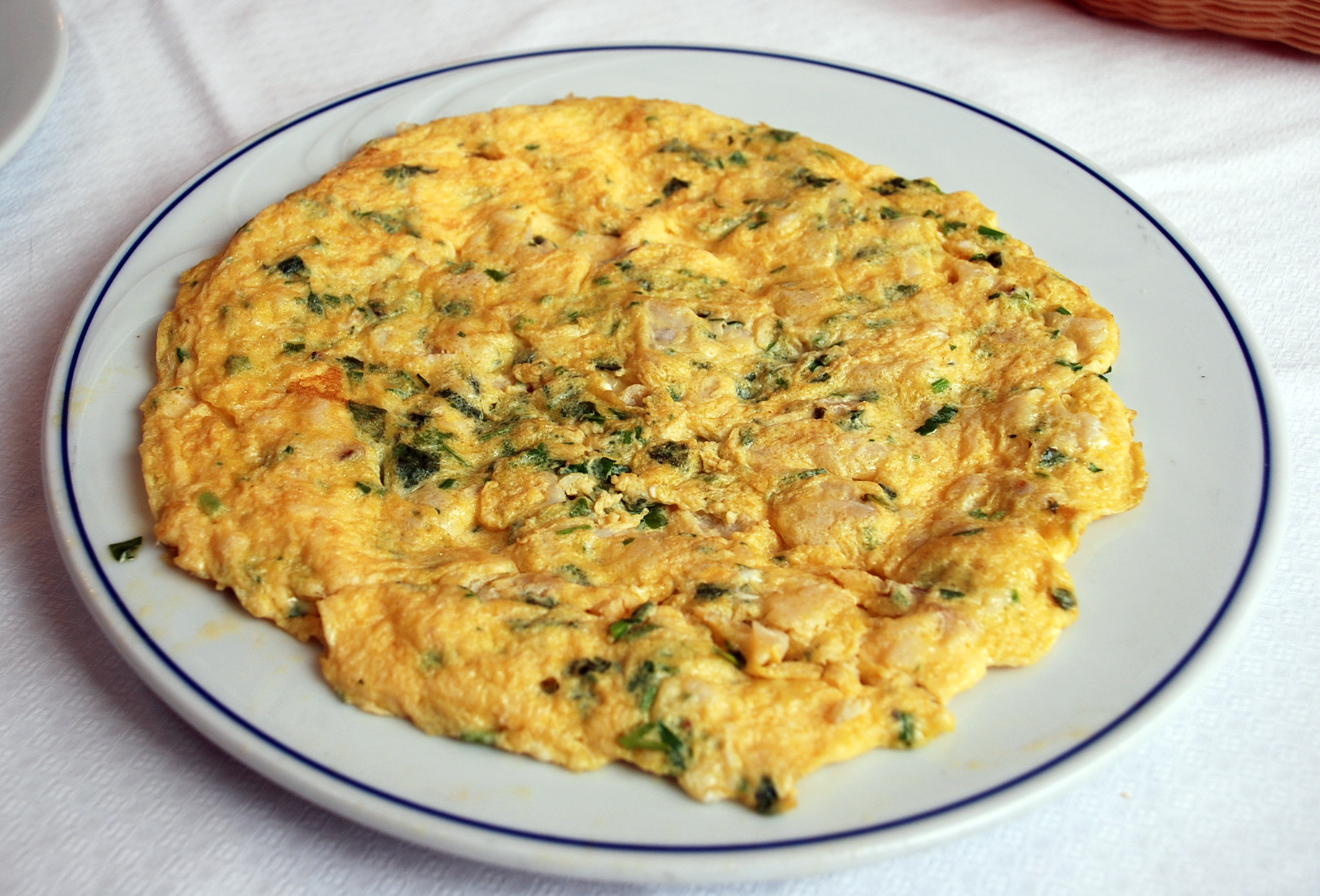 Cider menu. Codfish omelette.